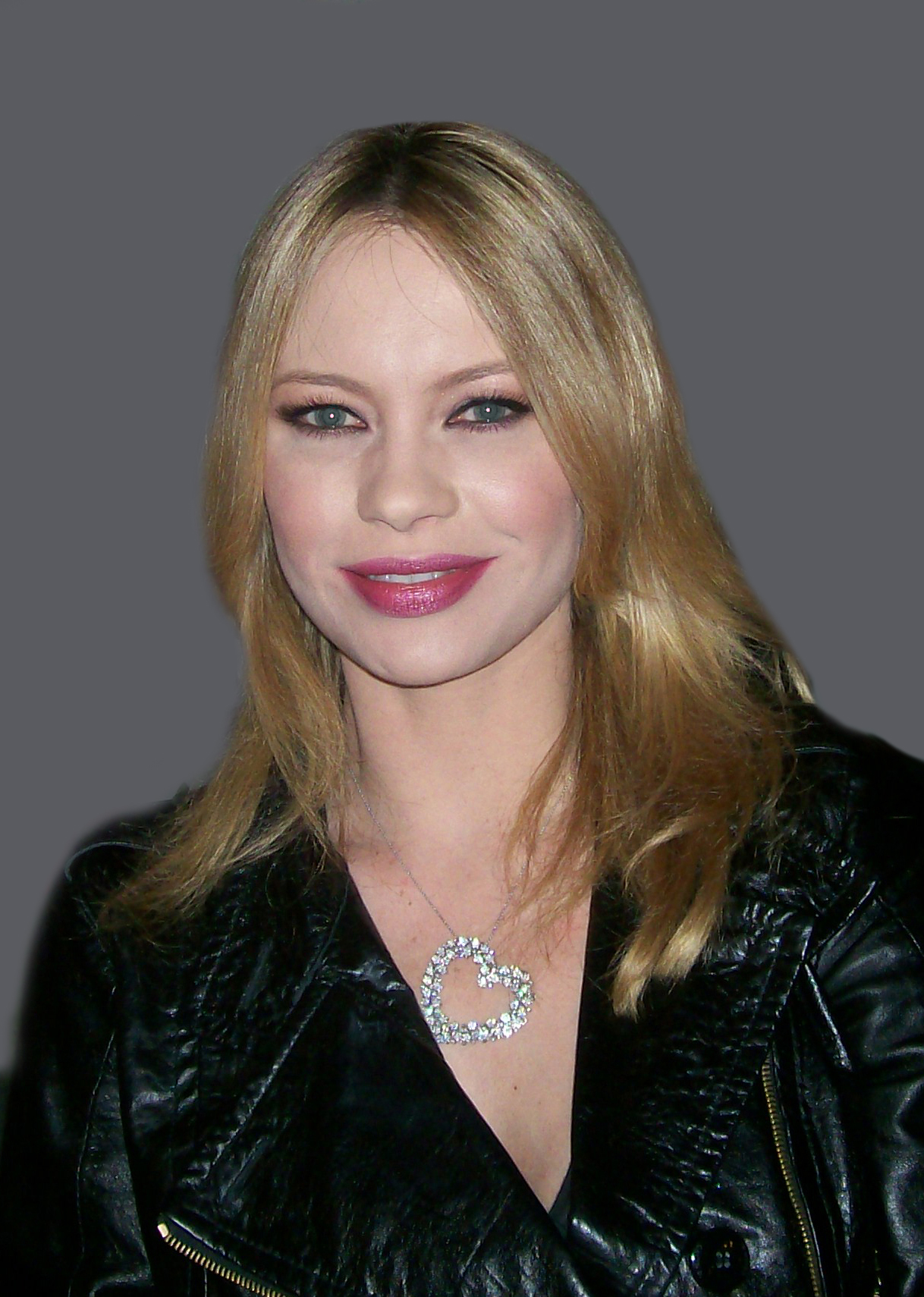 Anna Falchi, Italian model and actress